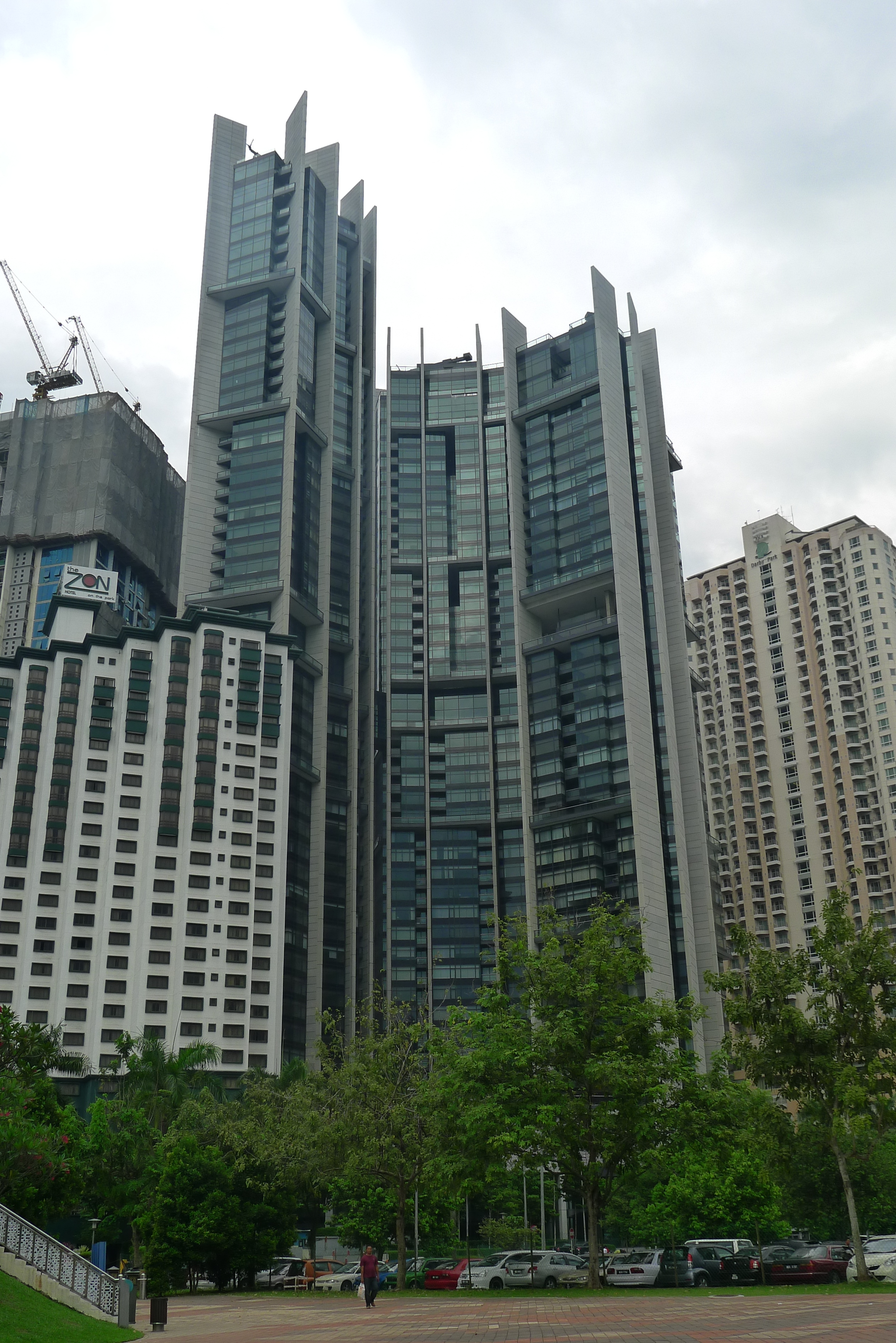 The Troika condominiums, designed by Foster+Partners viewed from street level at Jalan Binjai, Kuala Lumpur.